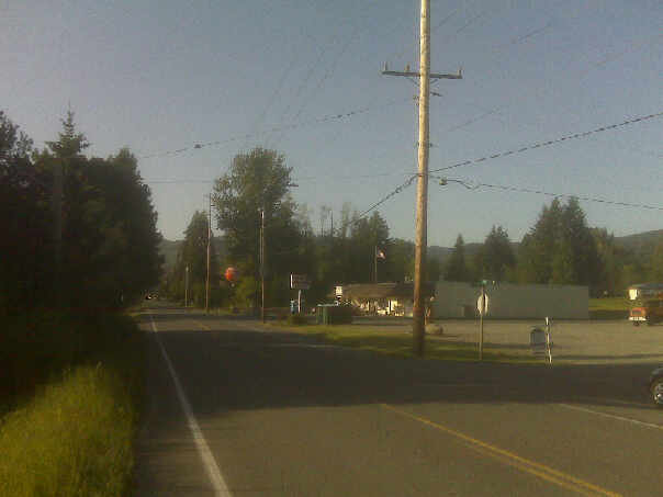 "Downtown" Hobart, WA post office and grocery store. Taken looking North on Hobart Rd.